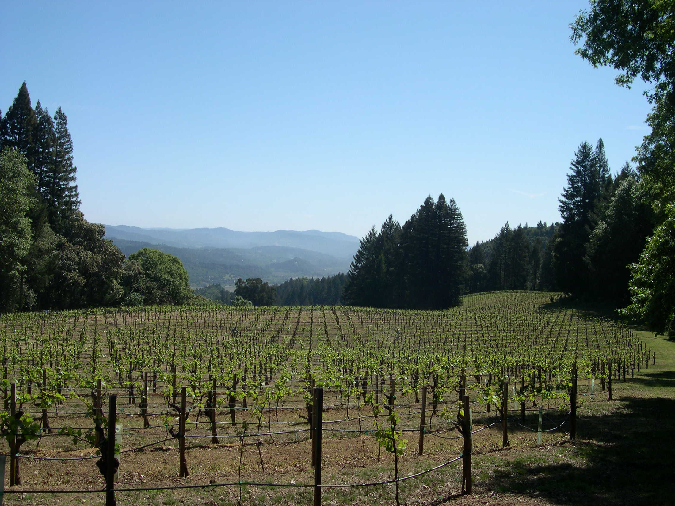 Stony Hill Vineyard overlooking the Napa Valley